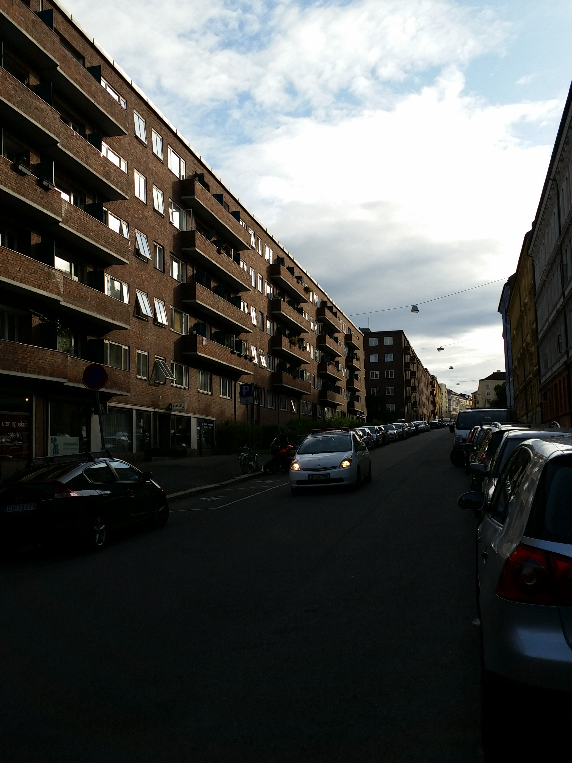 Bjerregaards gate, Oslo, Norway.